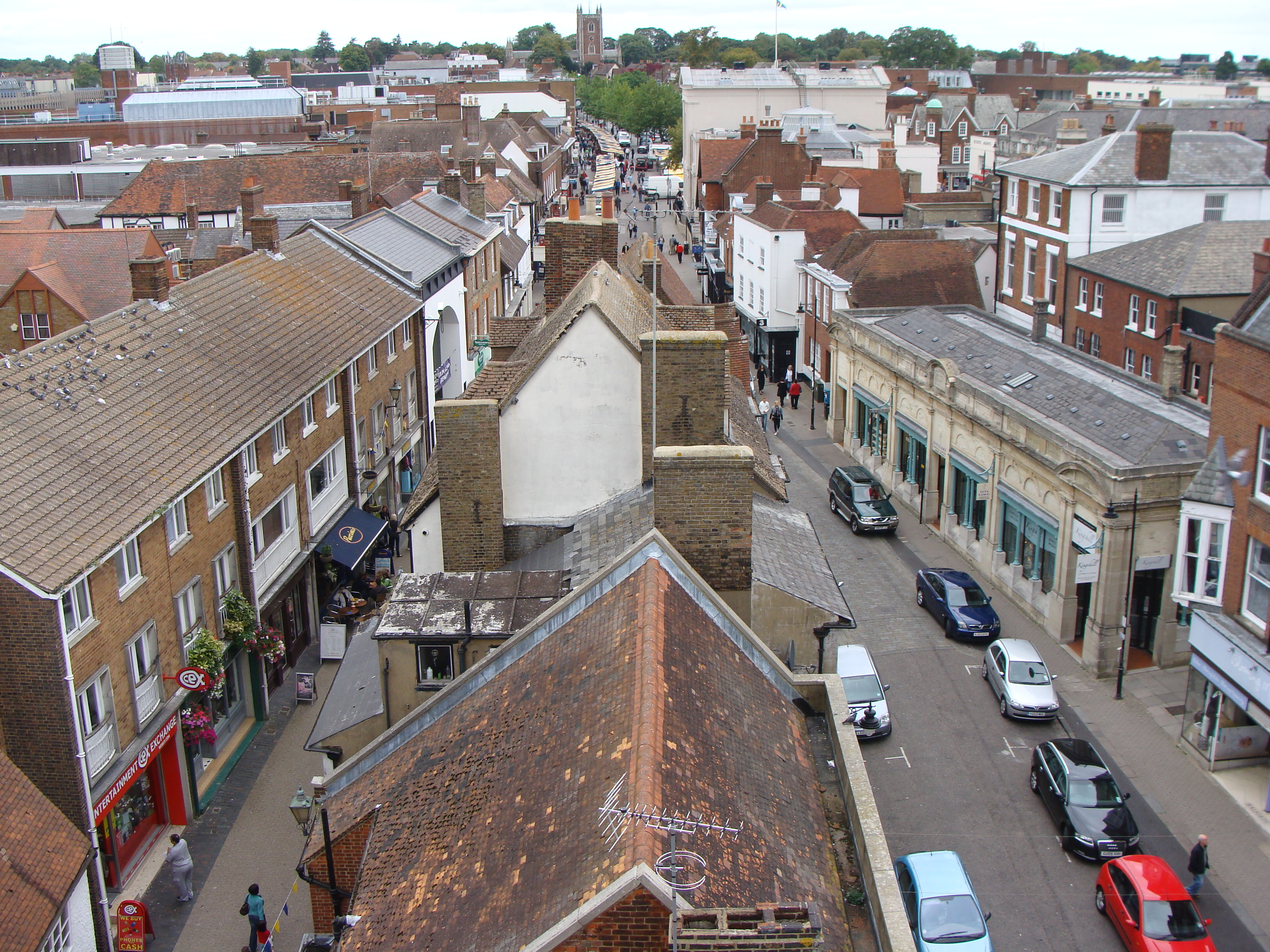 St Albans. View from Clock Tower.